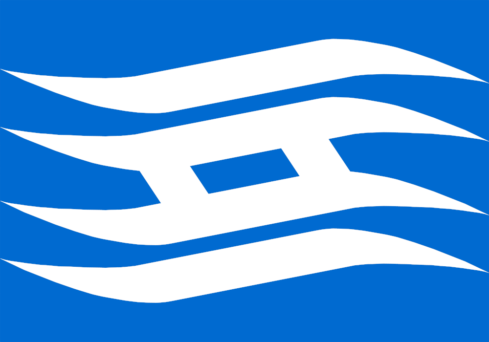 Flag of Hyogo Prefecture